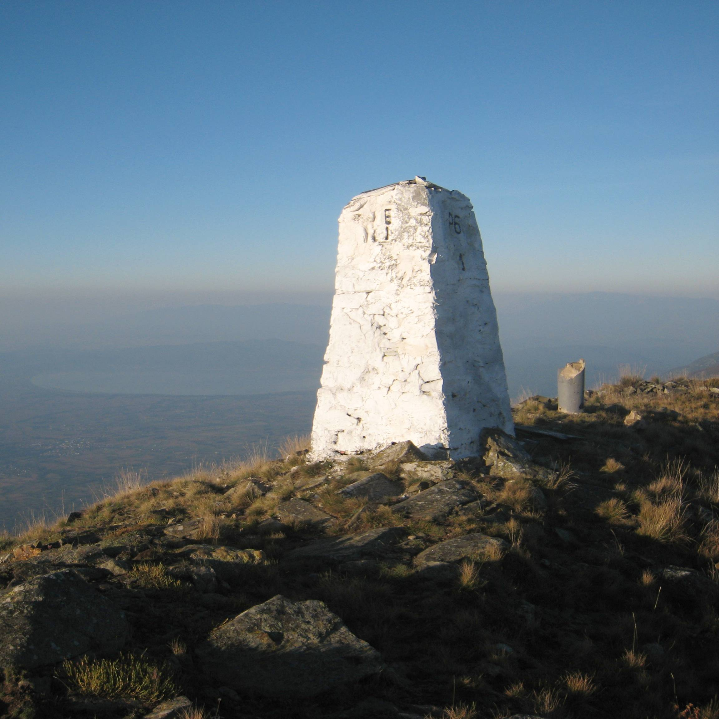 The summit of Tumba, at the border of Bulgaria, Greece and Macedonia. The stone shows the initials representing Greece and the Republic of Bulgaria.